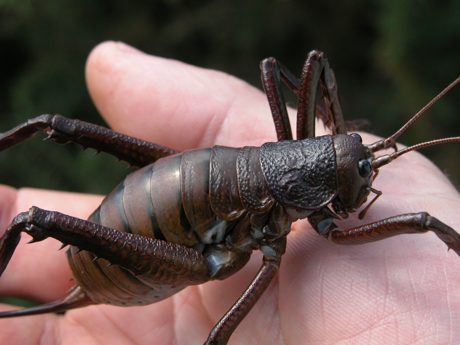 Large female Mahoenui giant wētā (Deinacrida mahoenui) being handled, dark-brown phase.